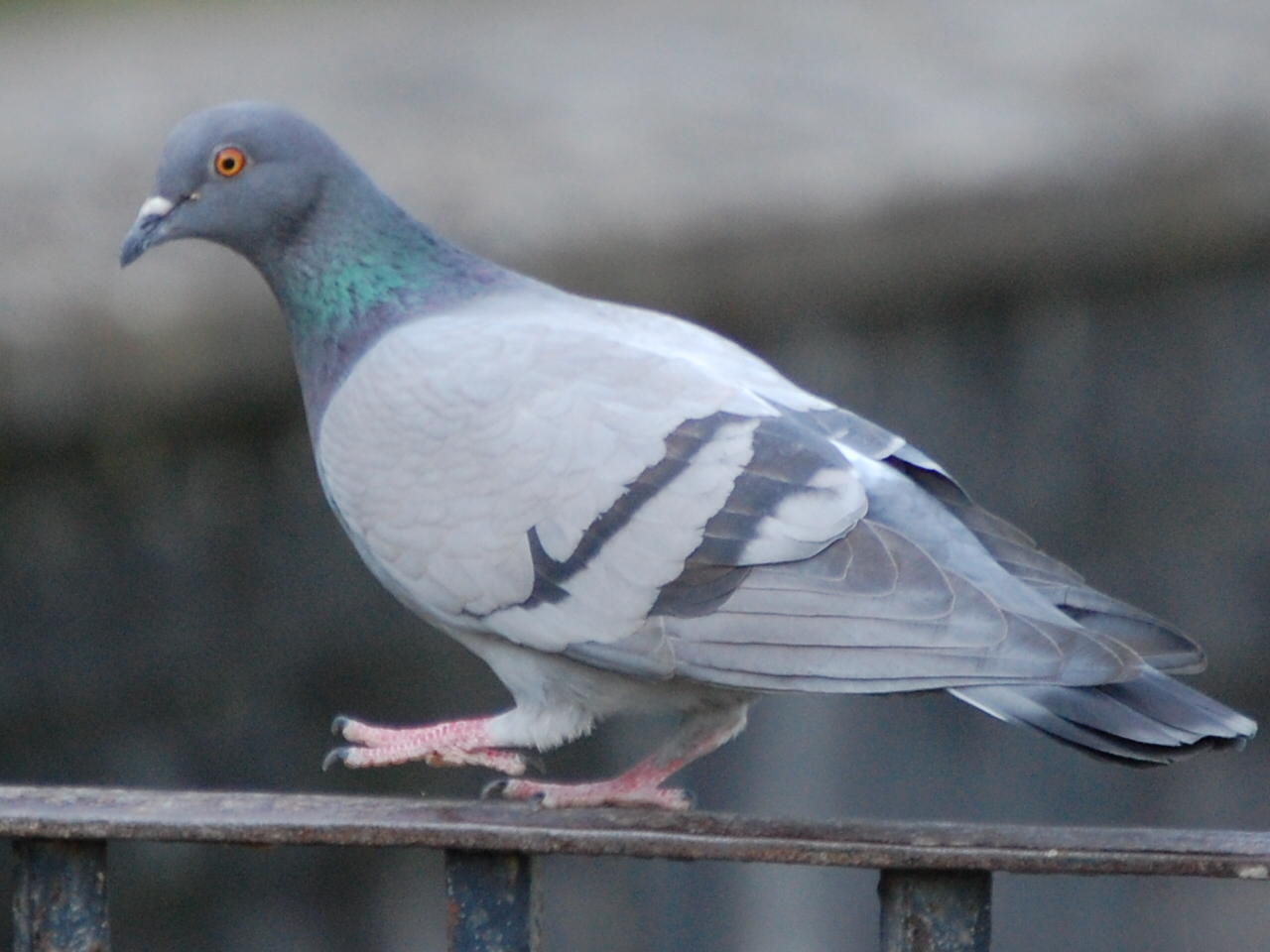 Rock pigeon (Columba livia)